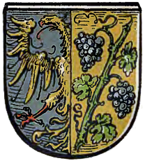 Coat of Arms of Groß Strehlitz (today Strzelce Opolskie).